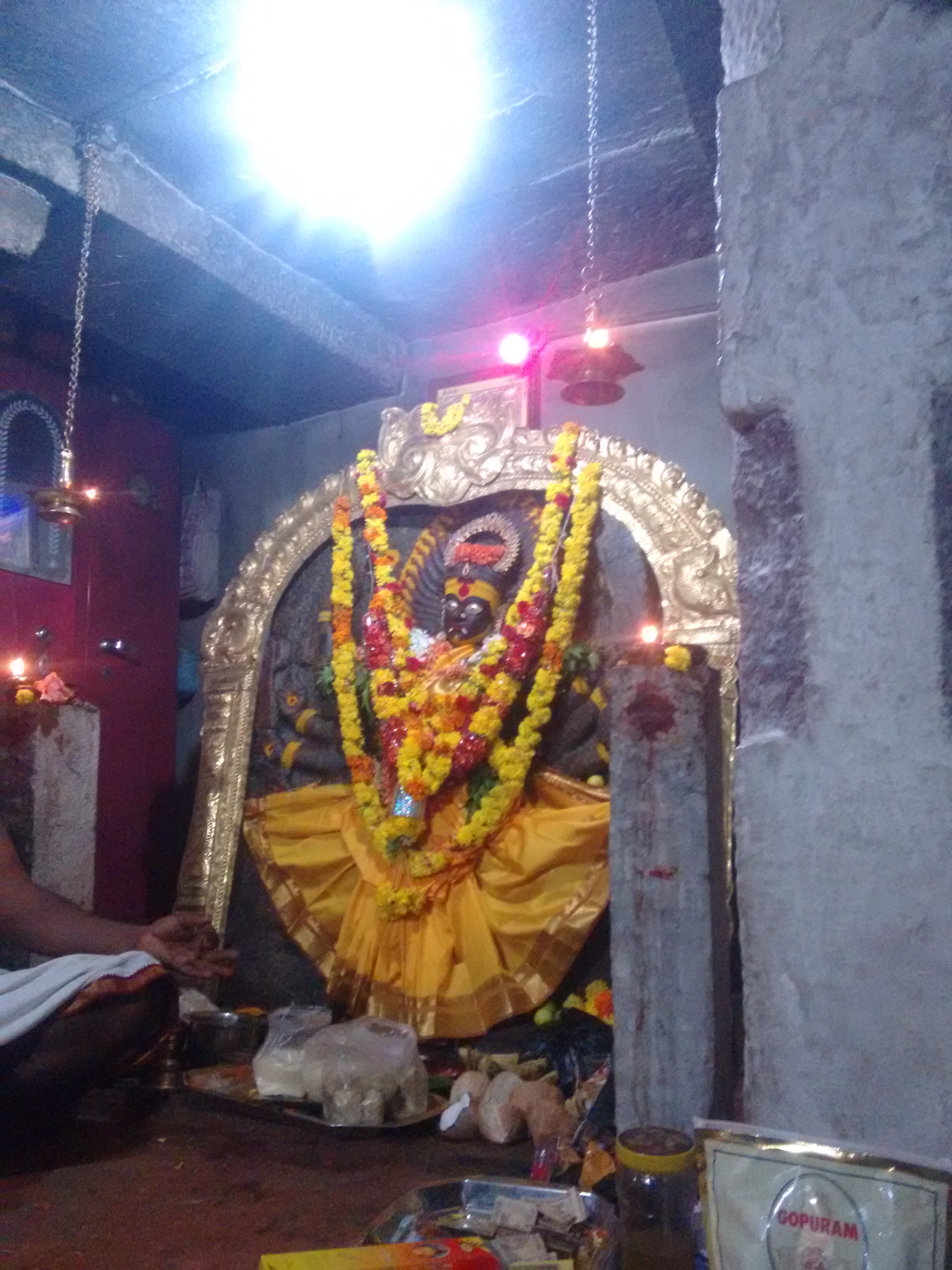 Goddess Sri chamudeseari.Located in Bashattihalli hobbli